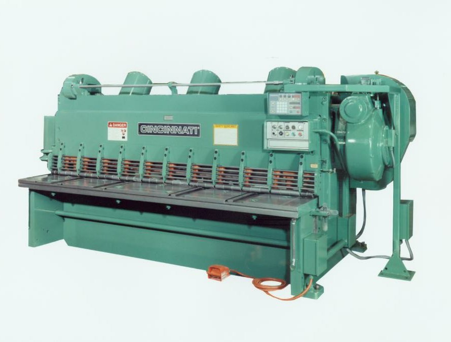 Mechanical shear, Cincinnati 4310